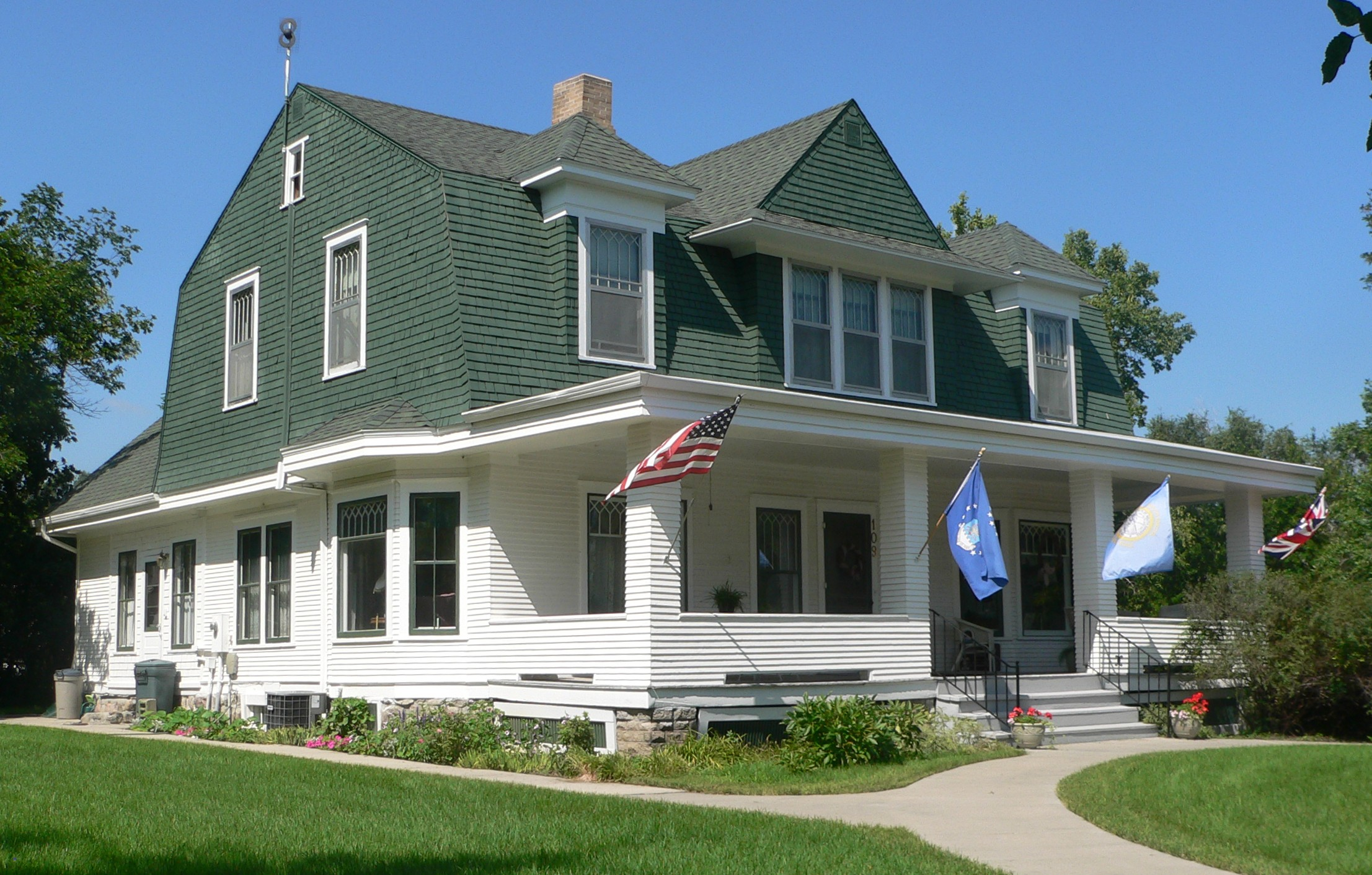 Robert S. Vessey house, located at 109 N. College Avenue in Wessington Springs, South Dakota; seen from the southeast.